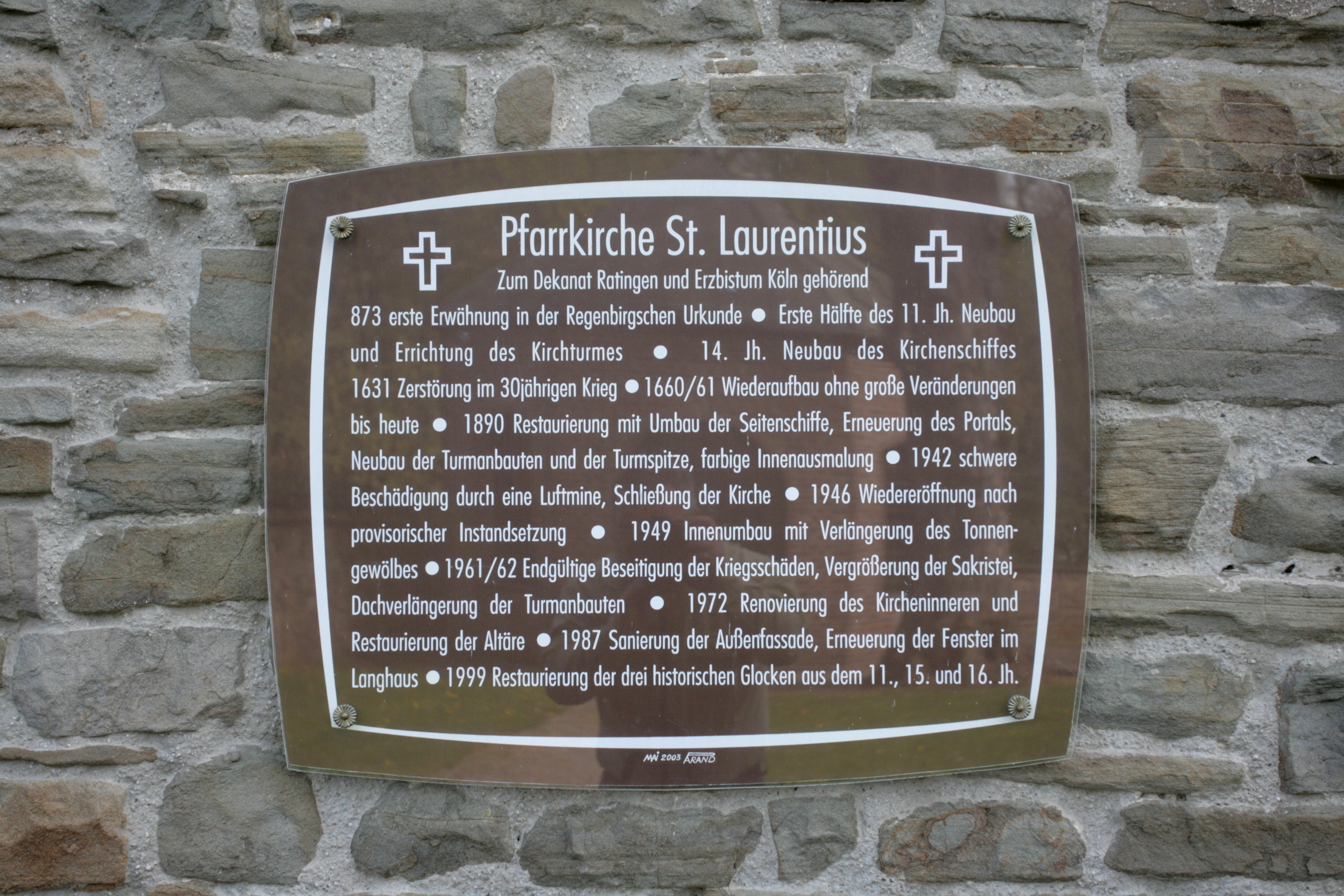 St. Laurentius in Mintard, Mülheim an der Ruhr